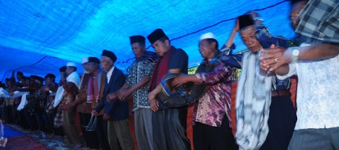 photo